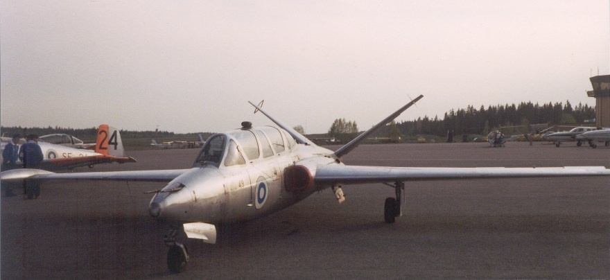 Finnish air force's Fouga Magister FM-49 at Tampere-Pirkkala airport 1982.